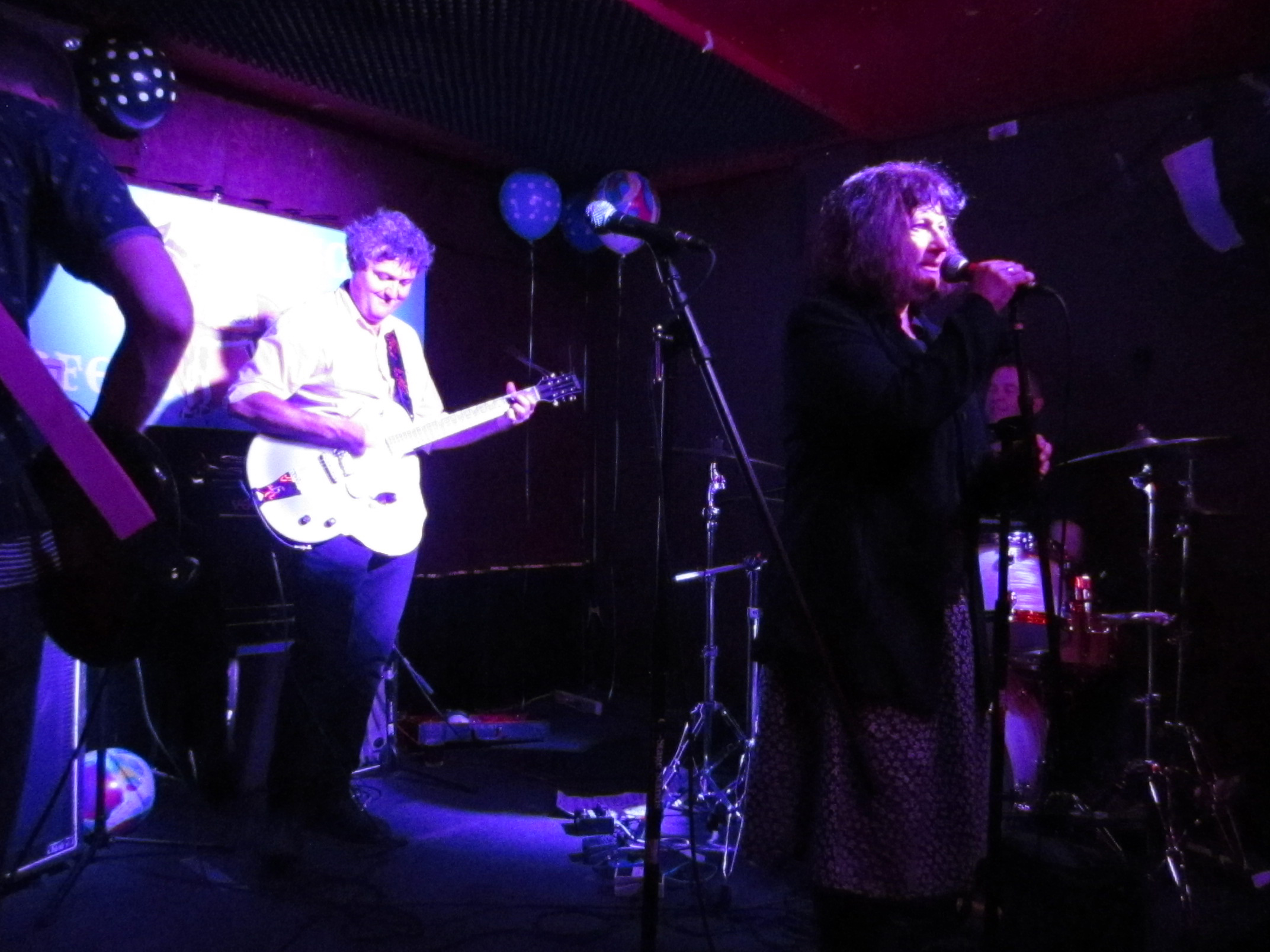 The Cannanes play at the Rickshaw Stop for San Francisco Popfest 2016. The Cannanes are an independent Australian pop band, formed in 1984.